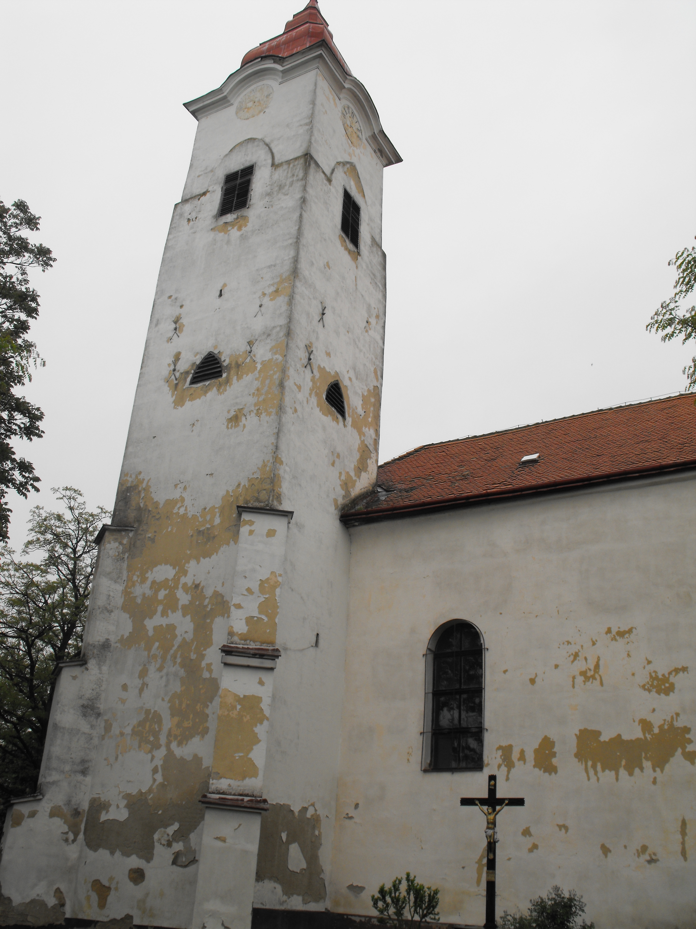 Pohľad na kláštor v Lelesi